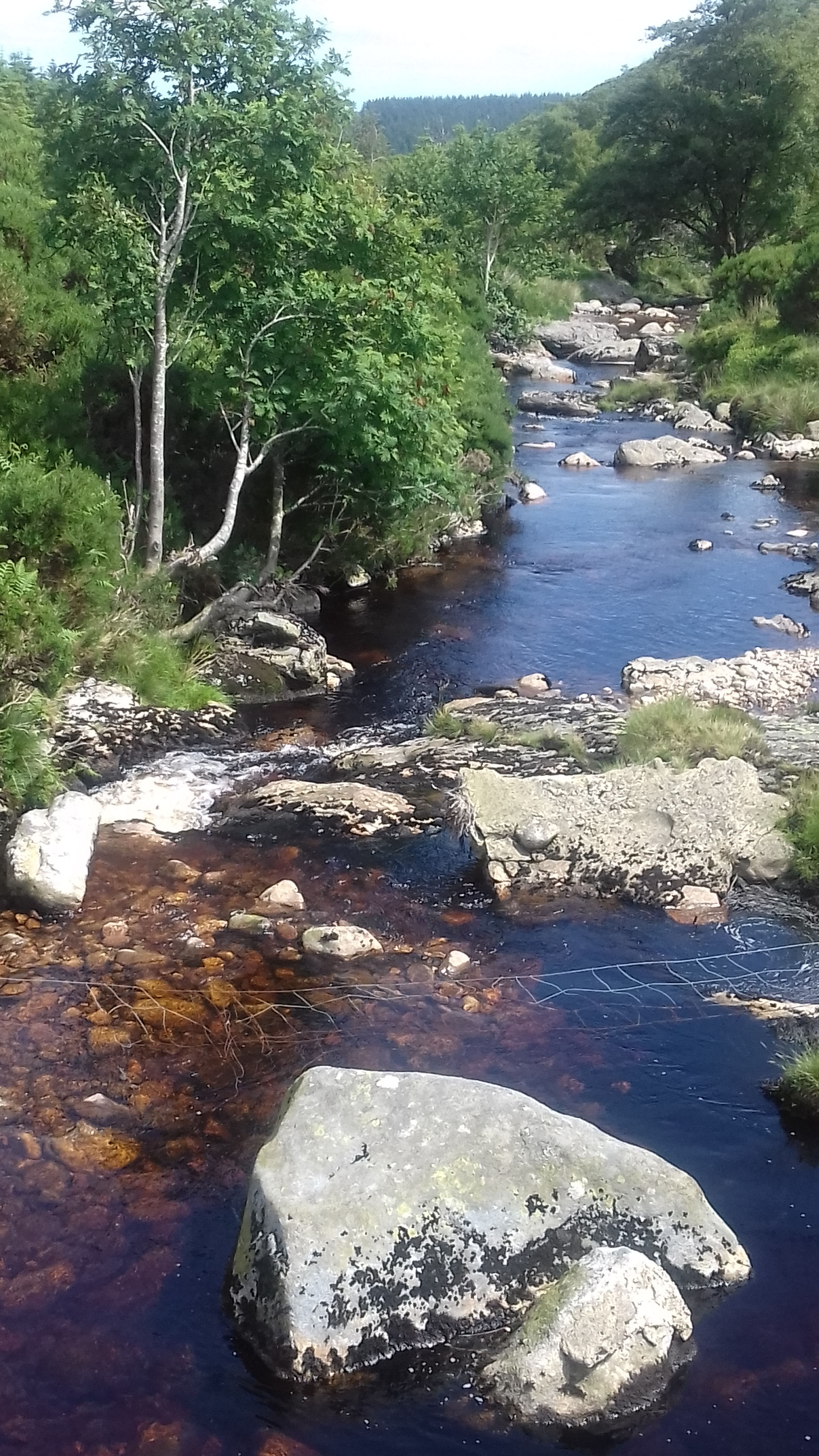 The river Dargle looking east from the footbridge in the cleft between Maulin and Djouce mountains. The "cleft" is also known as the "Glensoulan Valley".